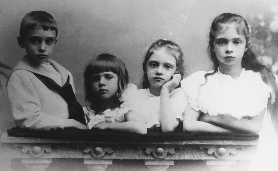 Four of the children of Robert I of Parma and his second wife Infanta Maria Antonia of Portugal. (l- R) : Xavier(1889-1977), Felix (1993-1970), Zita (1892-1989) and Francesca (1890-1978) of Bourbon-Parma